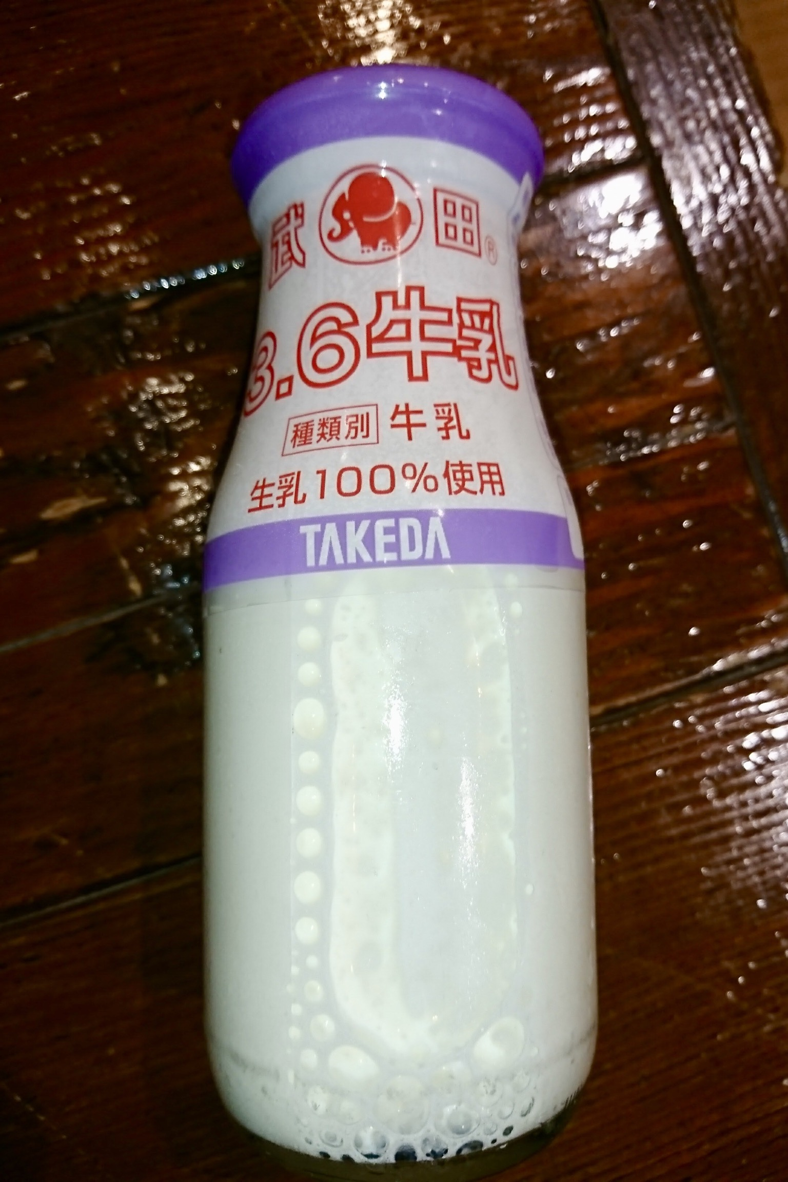 Takeda's milk